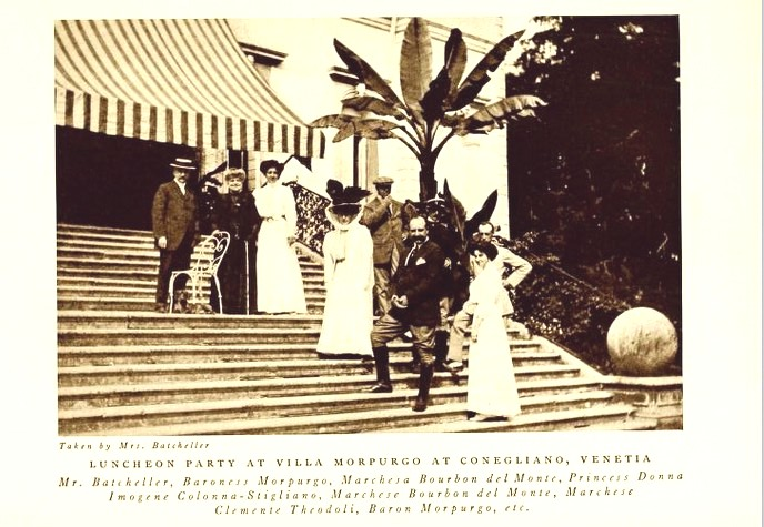 Villa Civran Morpurgo Pini-Puig, from Italian castles and country seats (1911) by BATES-BATCHELLER, photographed by Mrs. Bates-Batcheller